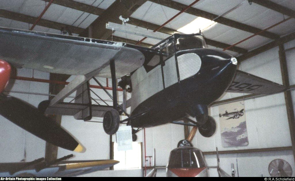 The sole Stout Skycar I of 1931 exhibited at the NASM Silver Hill Maryland in June 1982